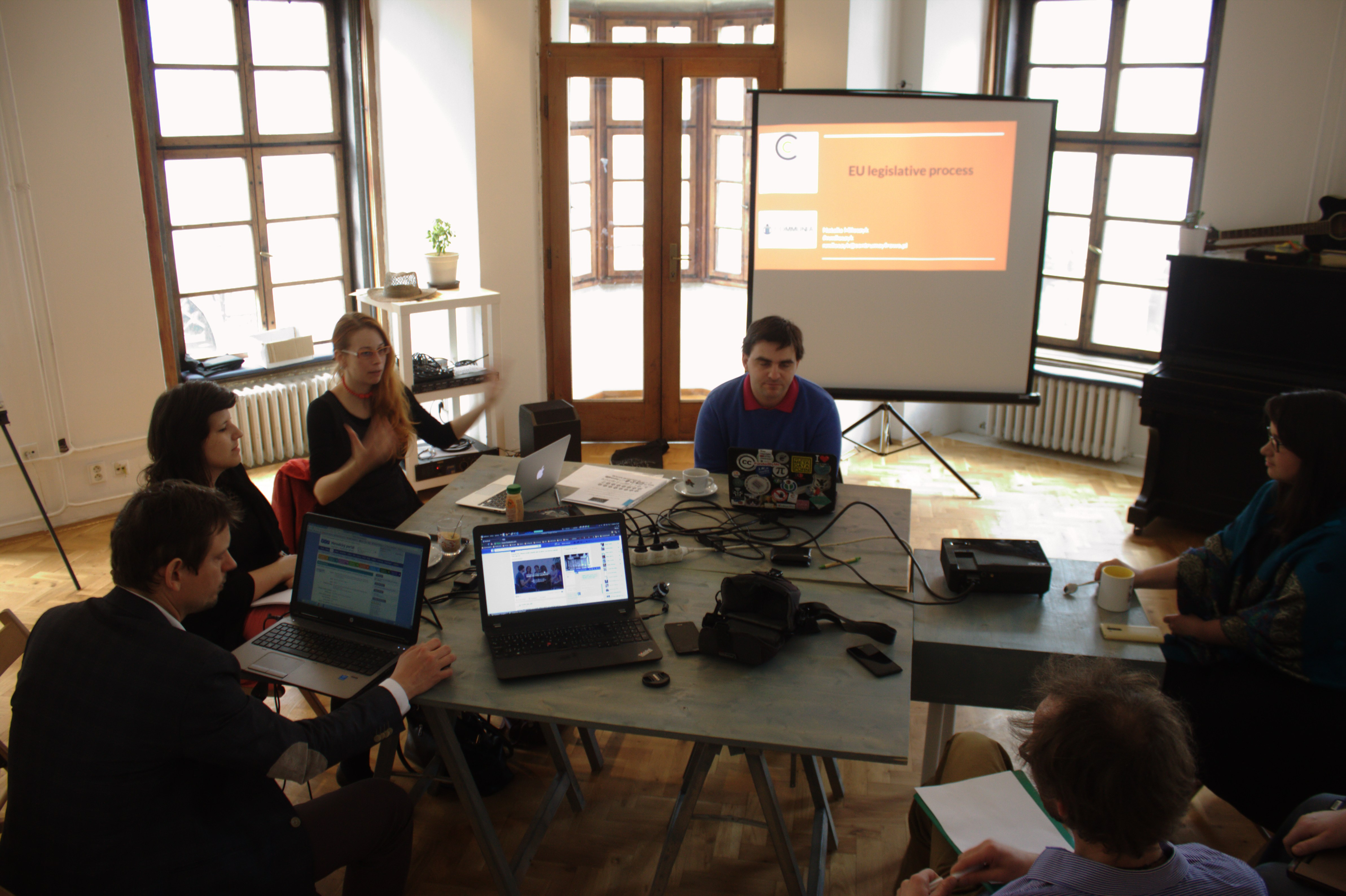 A workshop of Wikimedia Czech Republic and Free Knowledge alliance in Prague in April 2016. Our visitors were Dimitǎr Dimitrov from Free Knowledge Advocacy Group and Natalia Mileszyk from Centrum Cyfrowe